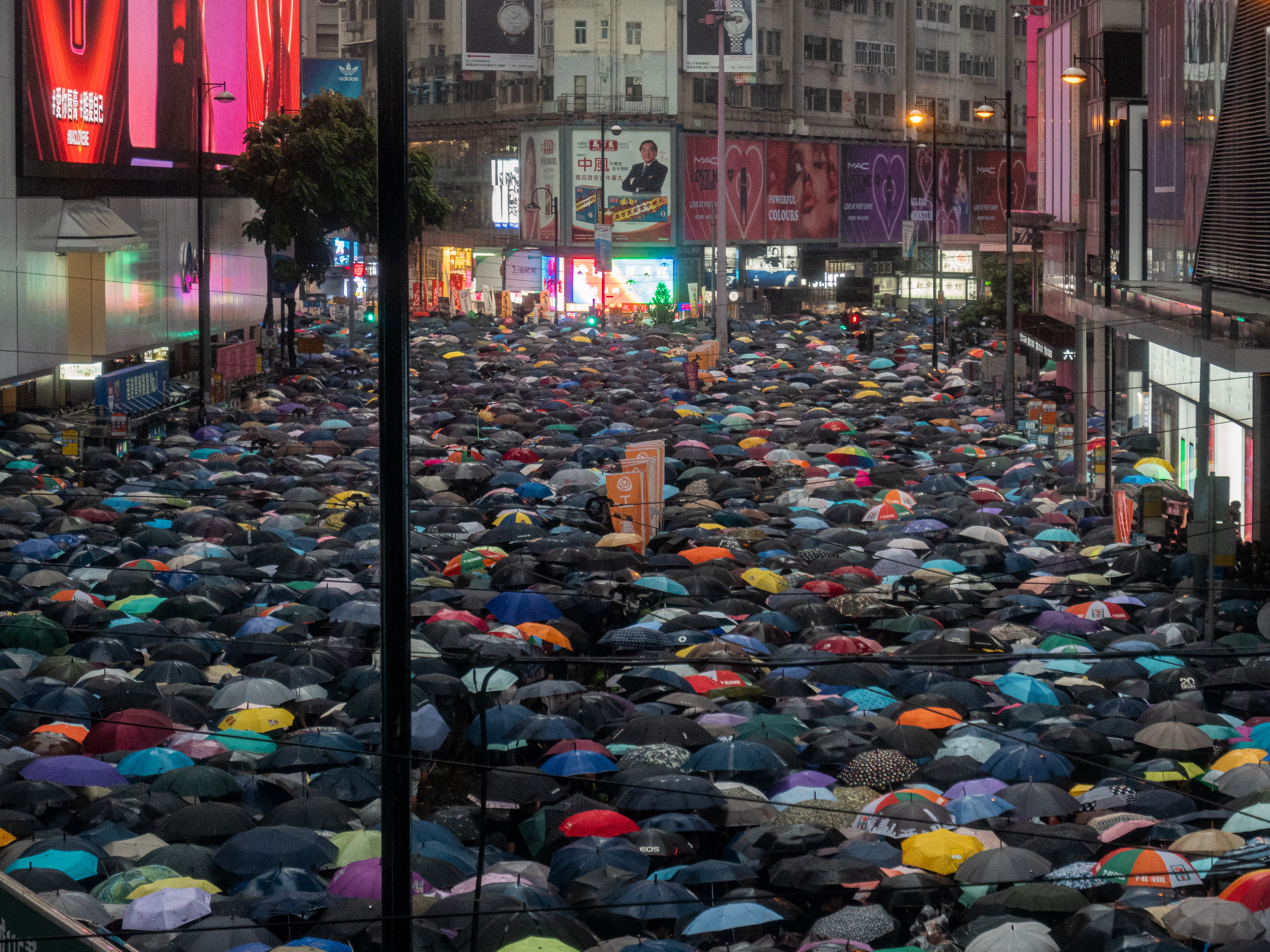 Protesters brave heavy rain as they march against the 2019 Hong Kong extradition bill on Sunday, August 18, 2019.